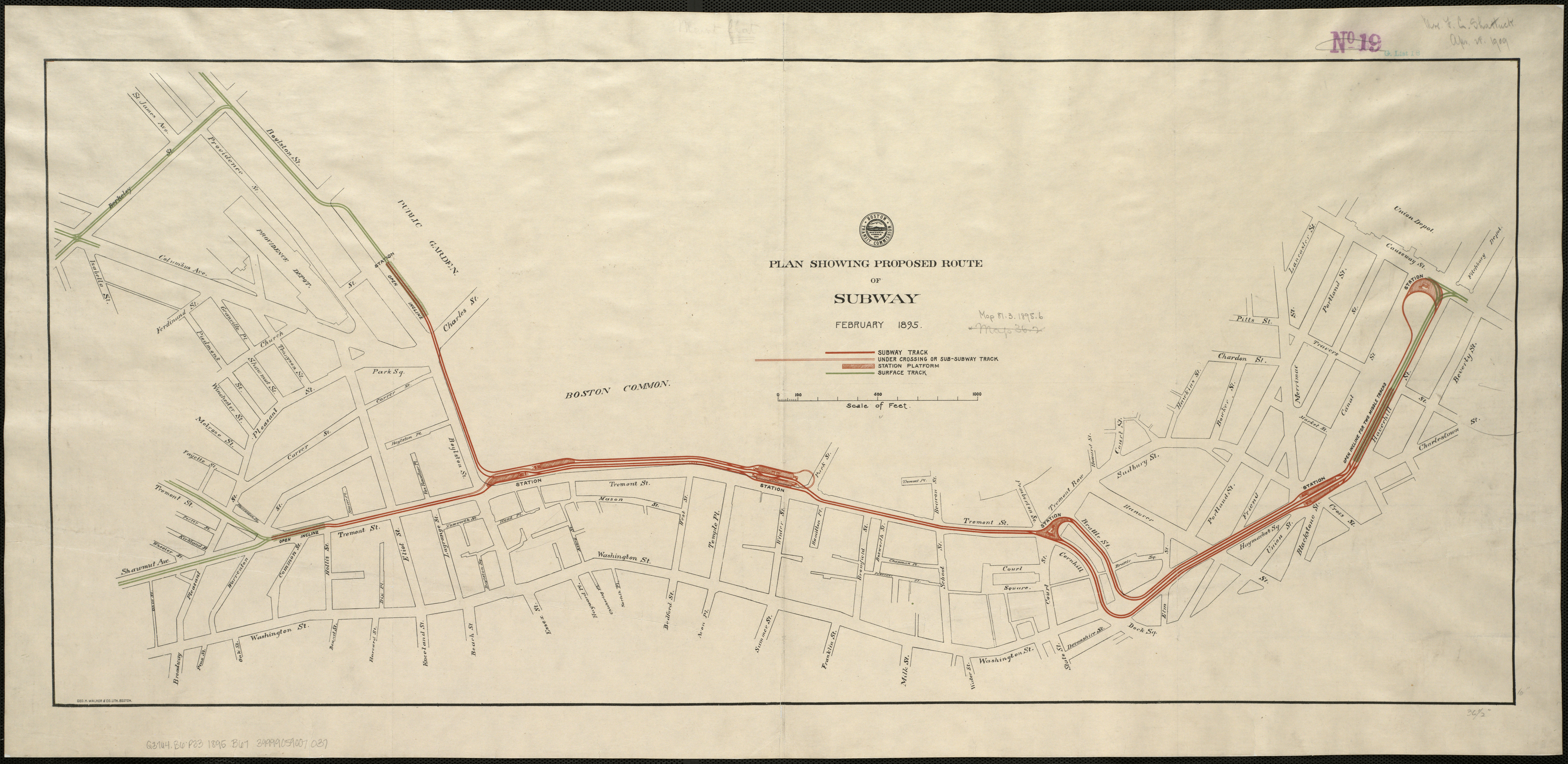 Early plan of the Tremont Street Subway. As built, the track configuration was largely different. Zoom into this map at . Author: Boston Transit Commission Publisher: Geo. H. Walker & Co. Date: 1895 Location: Boston (Mass.) Dimension 41x93cm Scale: 1:2,400 Call Number: G3764.B6P33 1895 .B67